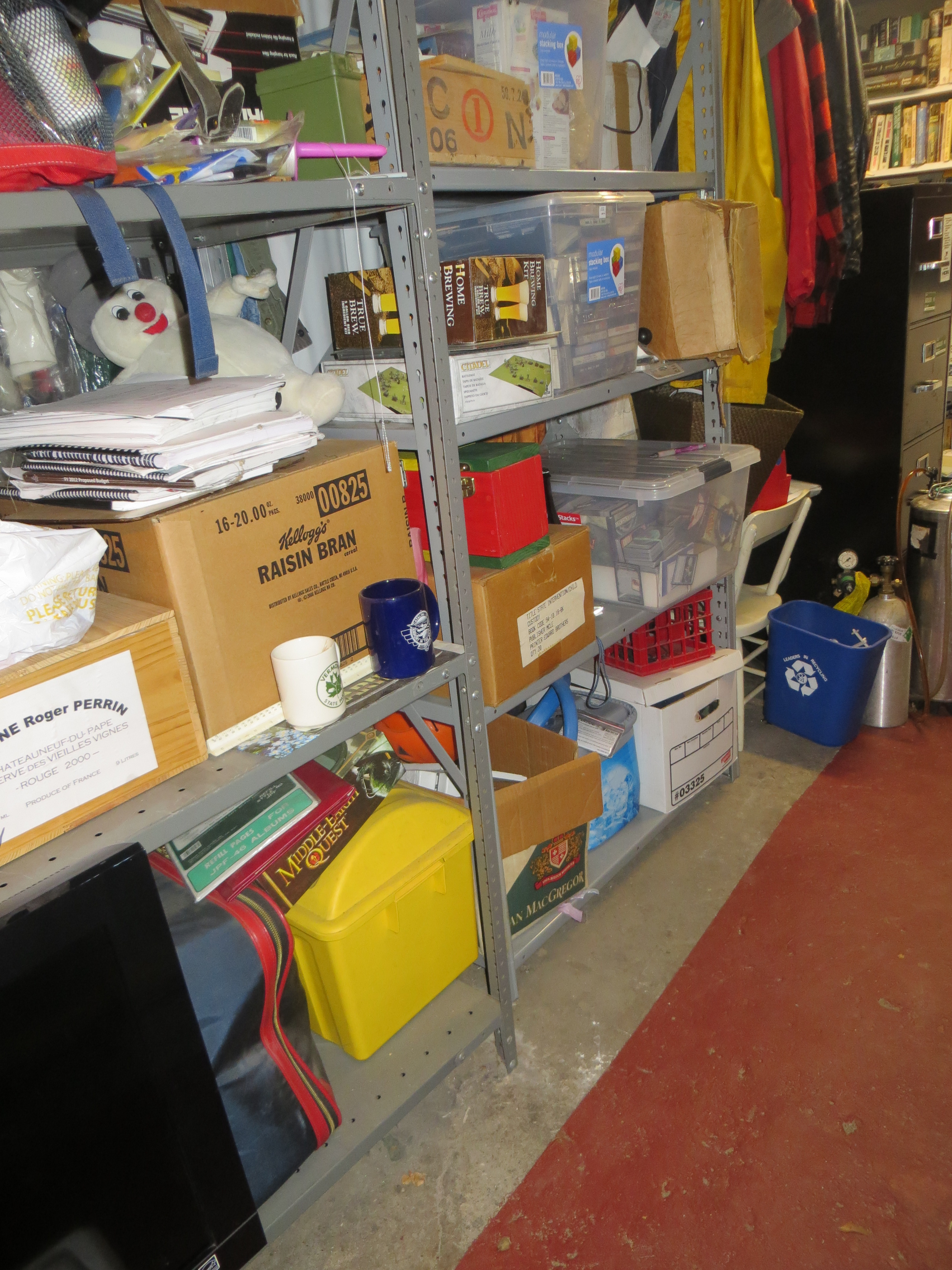 Items on Shelves in Basement